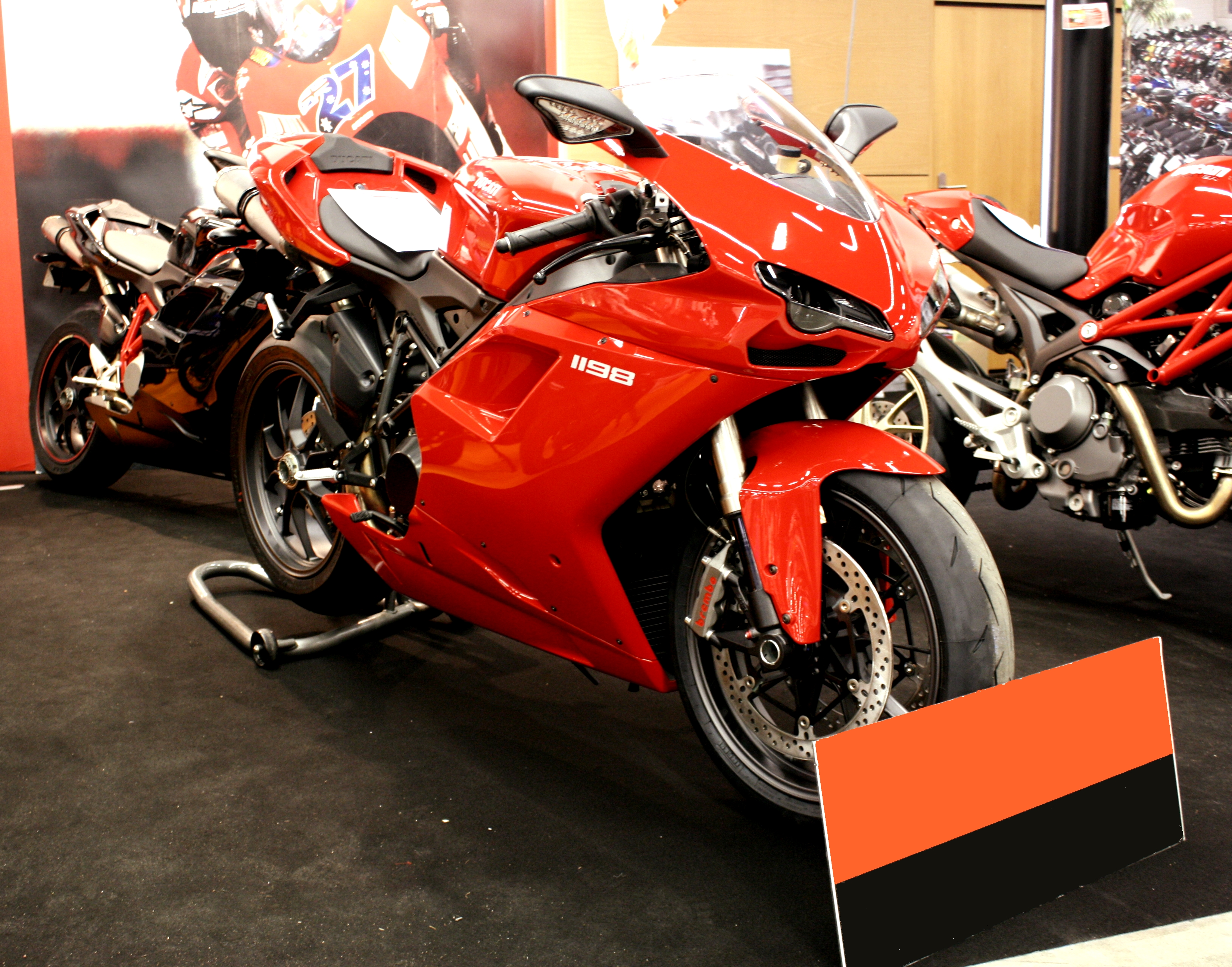 Ducati 1198